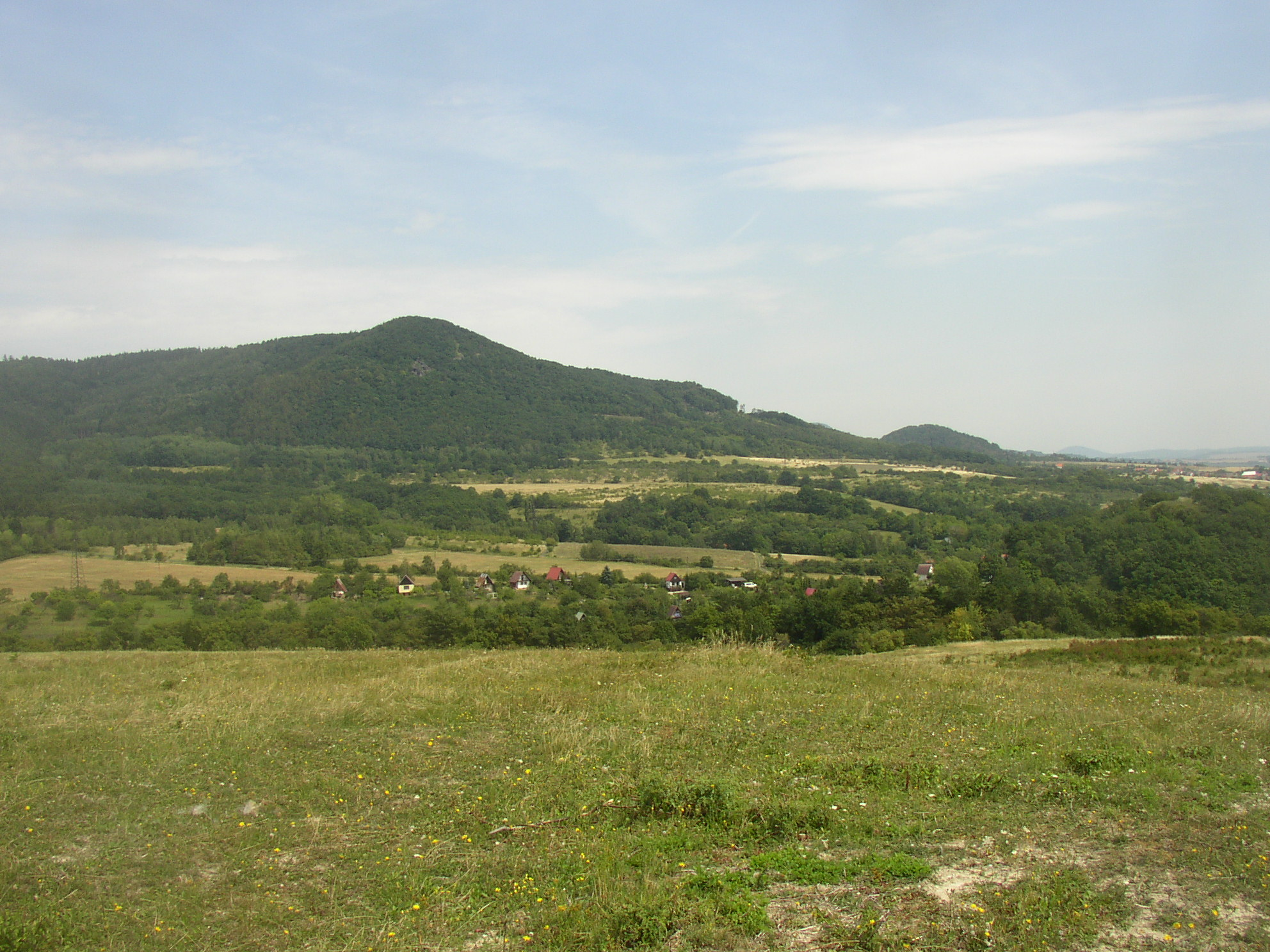 České středohoří, Czech Republic. Křížová hora (590 m, left) and Liščín (437 m, right) as seen from southwest, from hill of Bílá stráň.